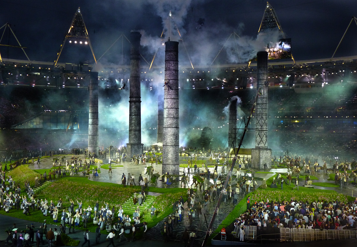 camera - konica z-up 150 lens - konica 38-150 film - fuji 200 iso the industrial revolution is well under way during the opening ceremony at london 2012